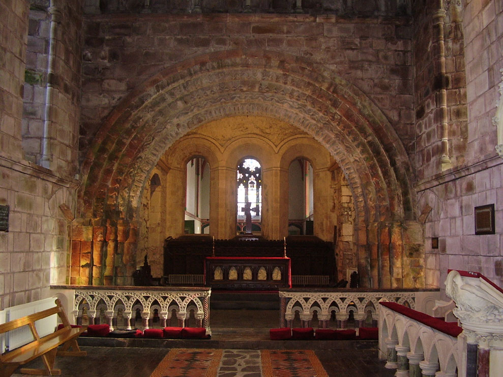 12th century red sandstone chancel arch in Romanesque style